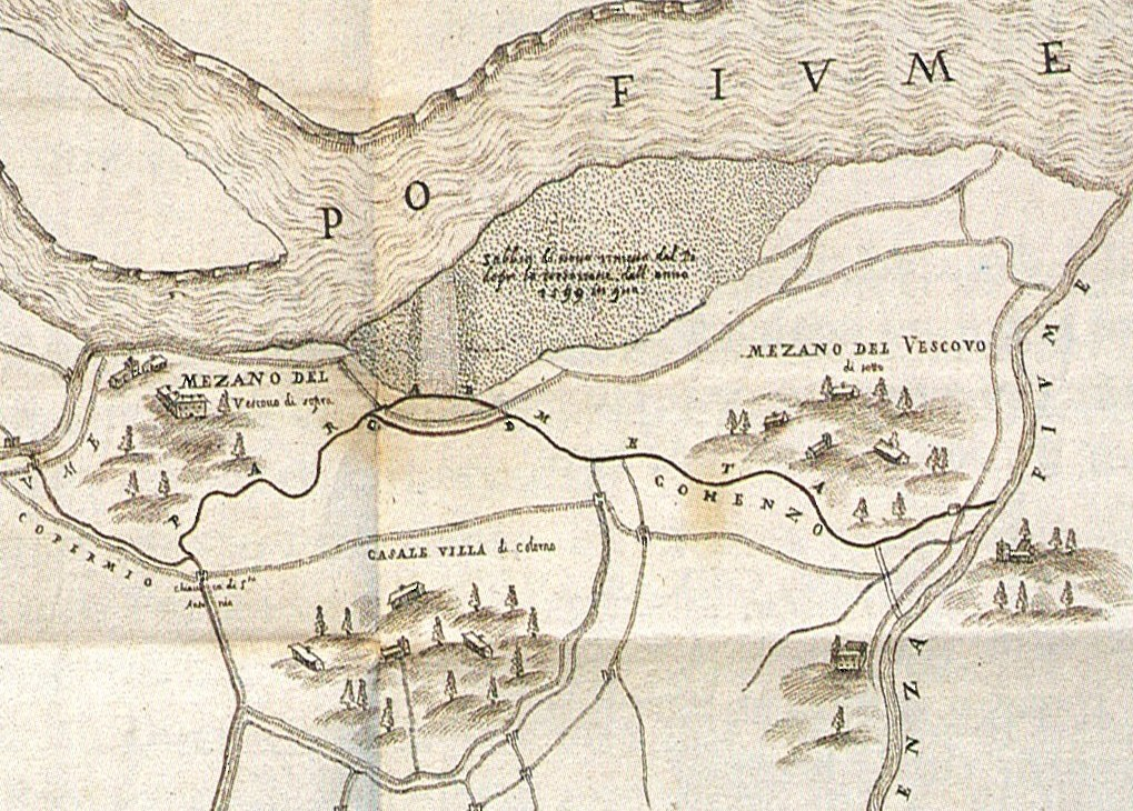 Mezzani in a old map of XVIII century